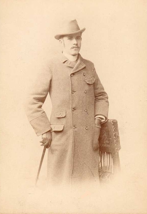 Alexander Kircher as a young man about to 1892 in Berlin